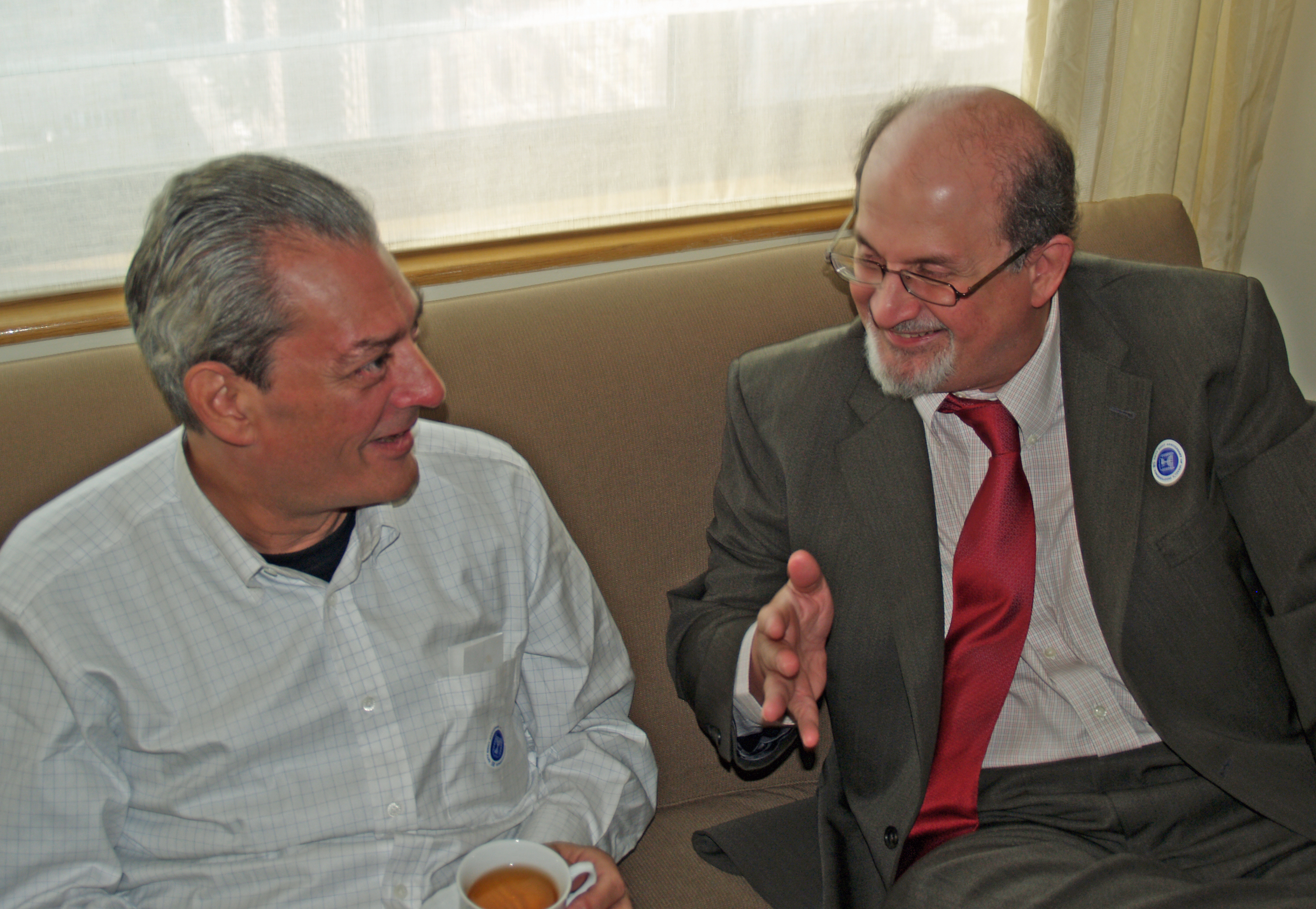 Breakfast honoring Israeli literary legend Amos Oz, on September 24, 2008 on the Upper East Side of Manhattan in New York City. To learn more about my work, please visit my website.